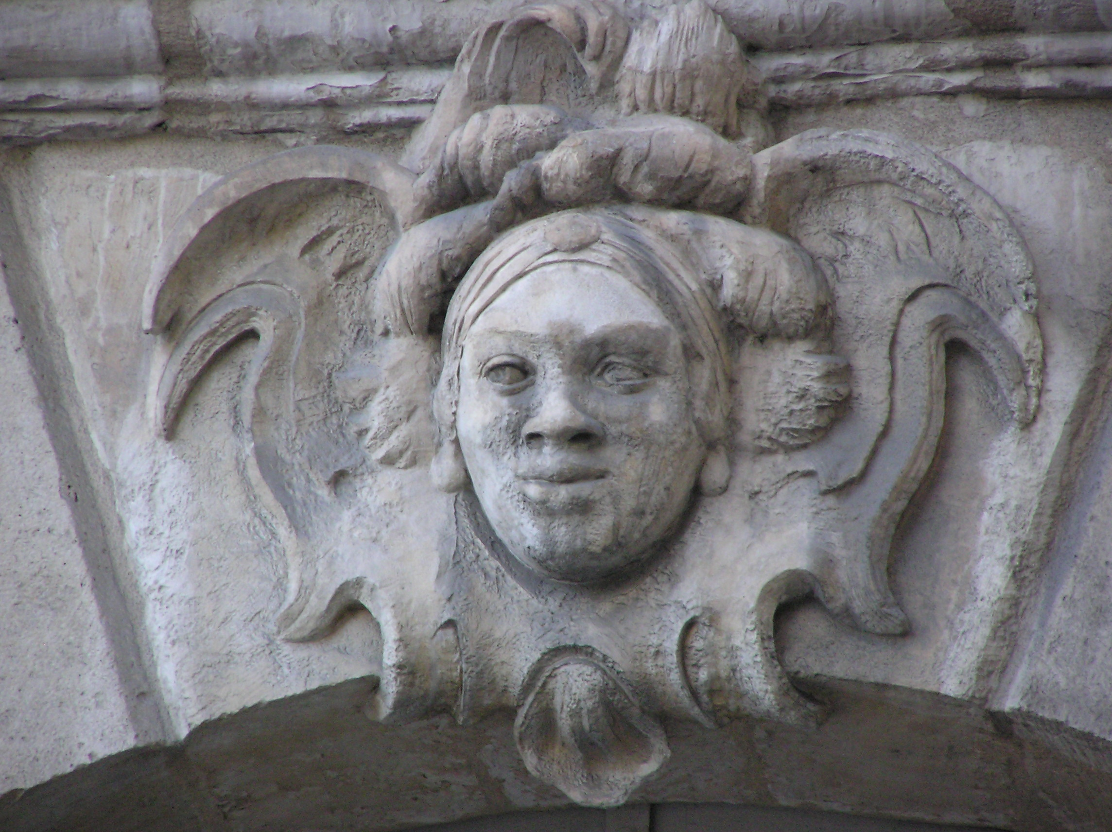 African face Mascaron in Bordeaux, rue Fernad-Philippart, close to the place de la Bourse.